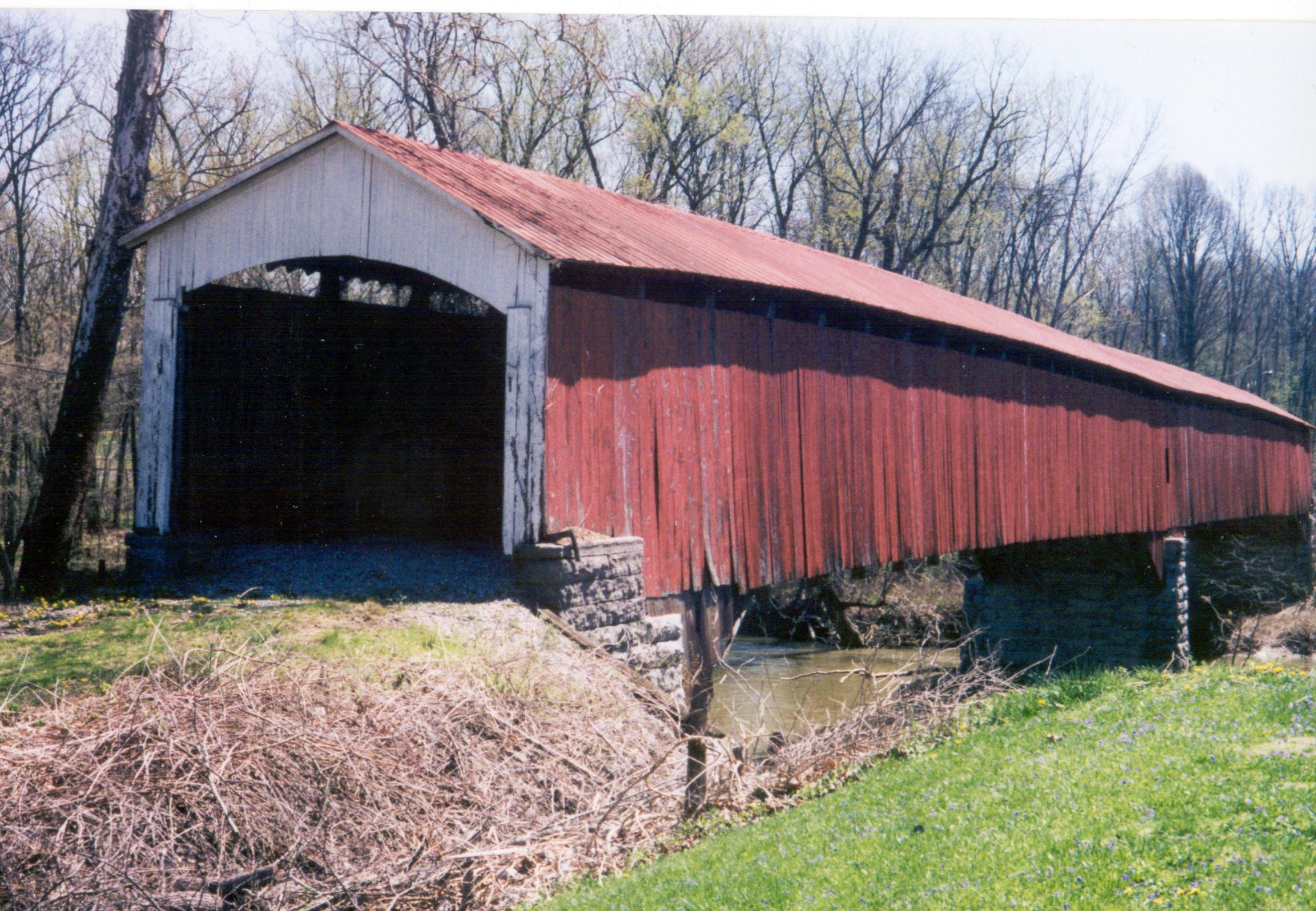 South approach to the Shieldstown Covered Bridge